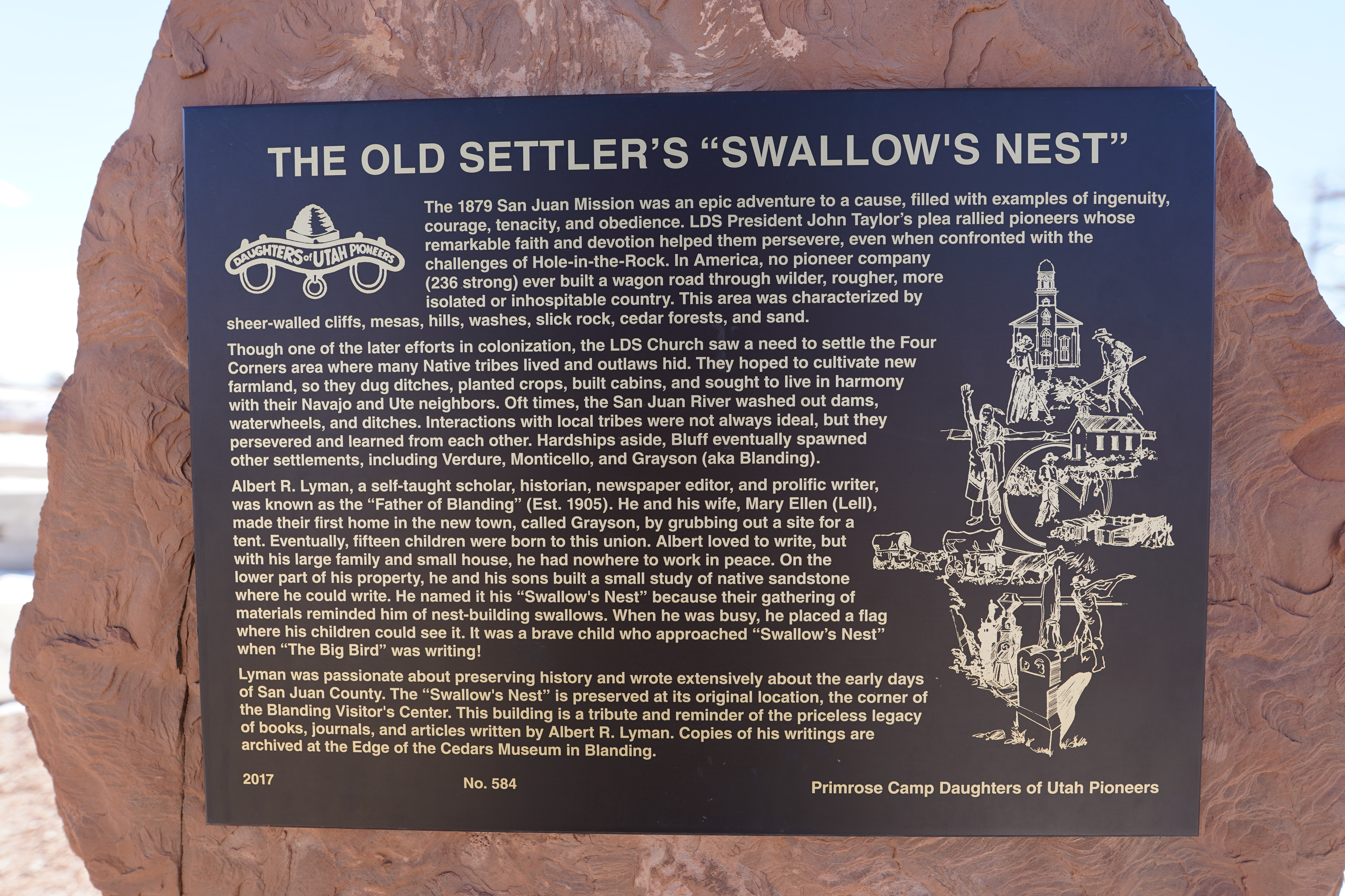 The photograph is of a historical plaque located near the Swallow's Nest site. The plaque describes the Mormon history of San Juan County and indicates that a man named Albert R. Lyman built the structure.